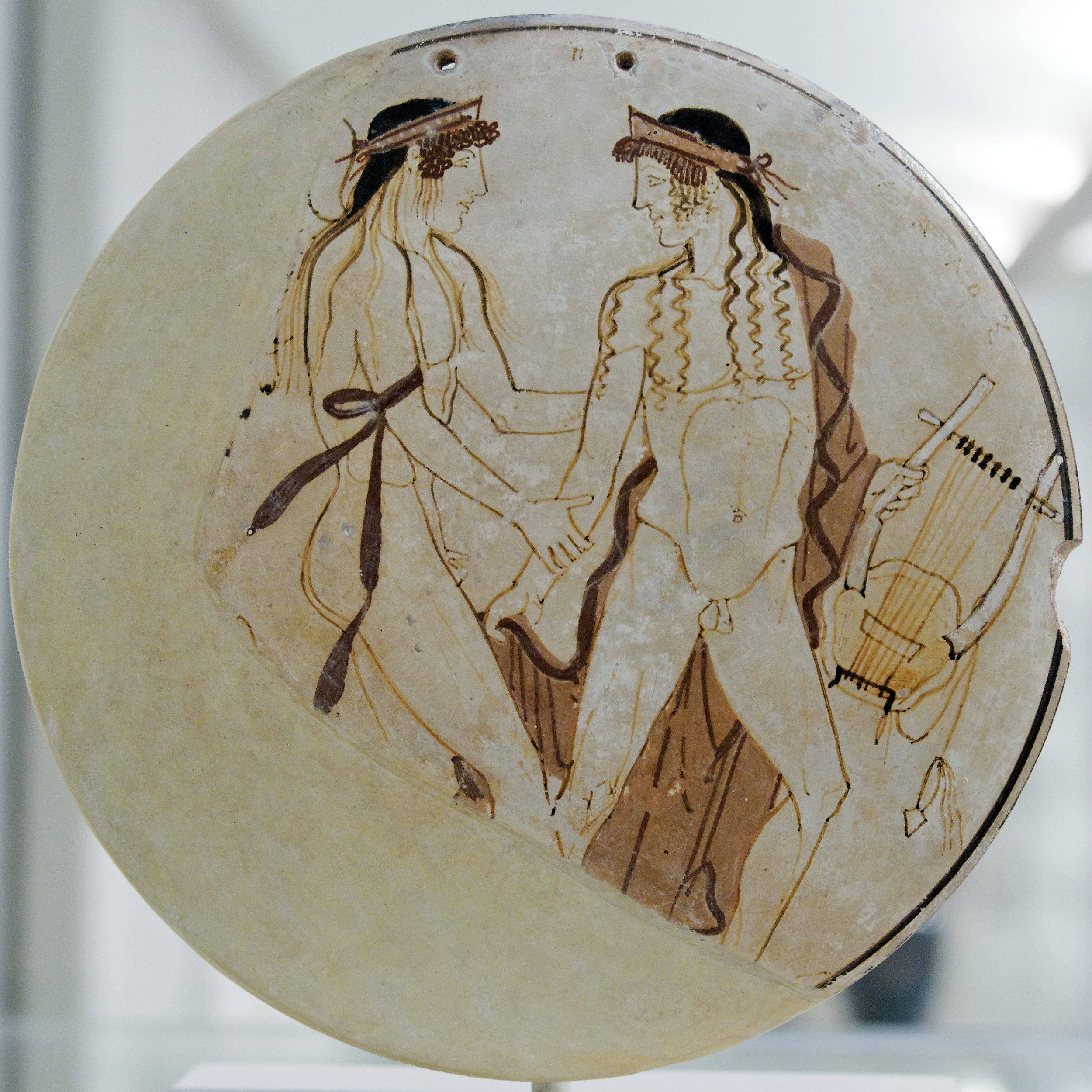 Eros and a youth. Side B of an Attic white-ground bobbin.